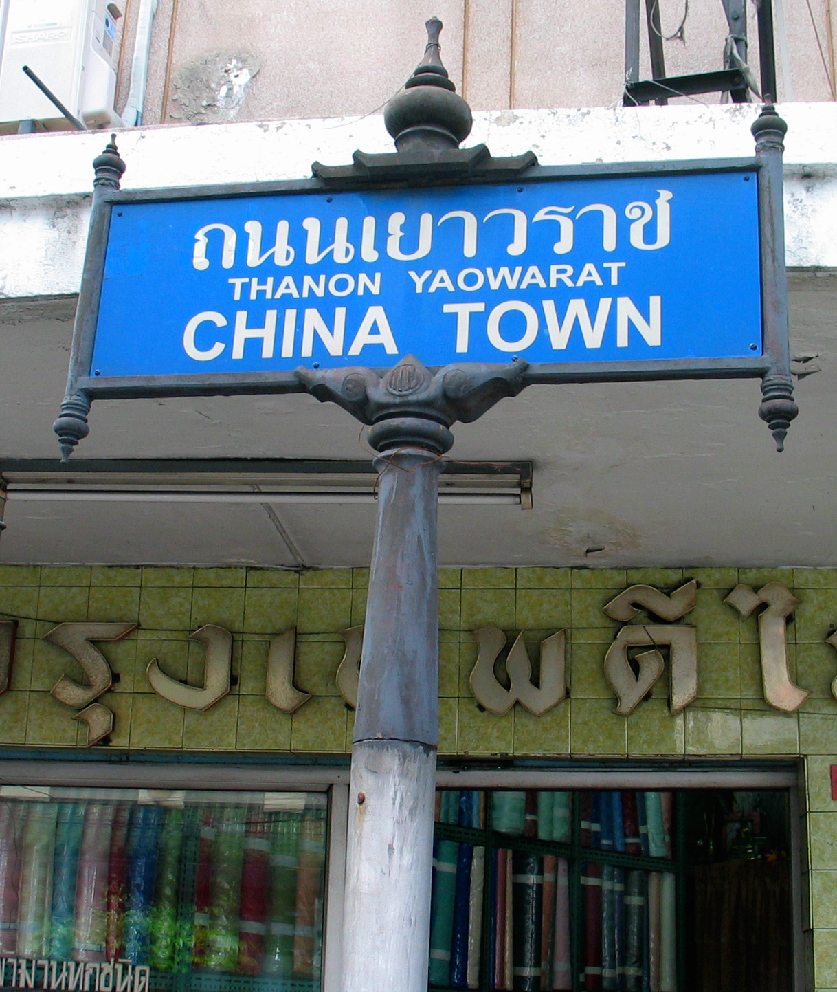 Thanon Yaowarat, Bangkok's chinatown , Thailand